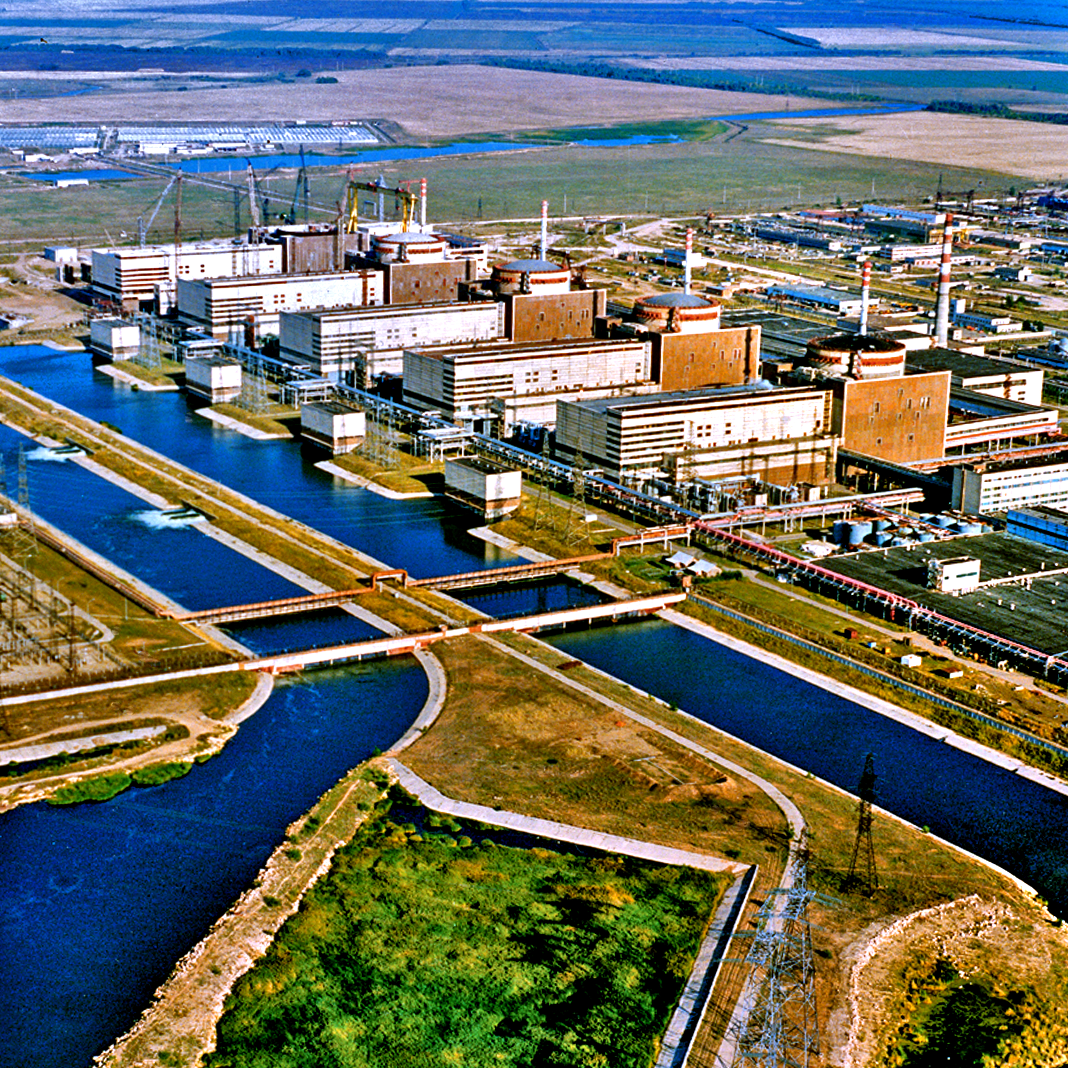 Panorama view of the Balakovo Nuclear Power Plant site